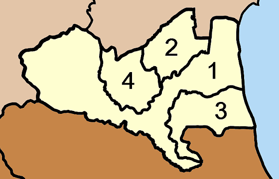 Map of Lamae district, Chumphon province, with the communes (tambon) numbered Lamae (ละแม) Thung Luang (ทุ่งหลวง) Suan Taeng (สวนแตง) Thung Kha Wat (ทุ่งคาวัด)